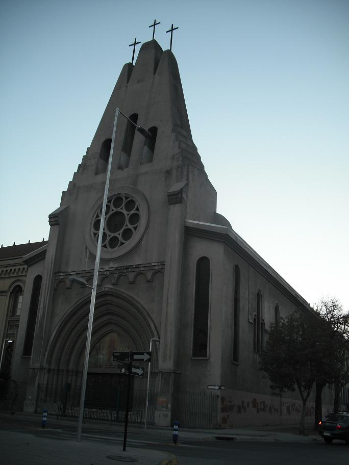 Nuestra Señora del Pilar